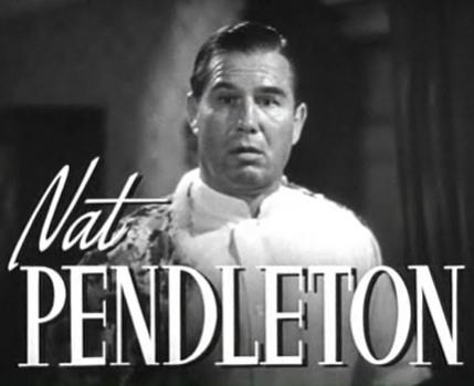 Nat Pendleton in Dr. Kildare Goes Home (directed by Harold S. Bucquet) - trailer (cropped screenshot)